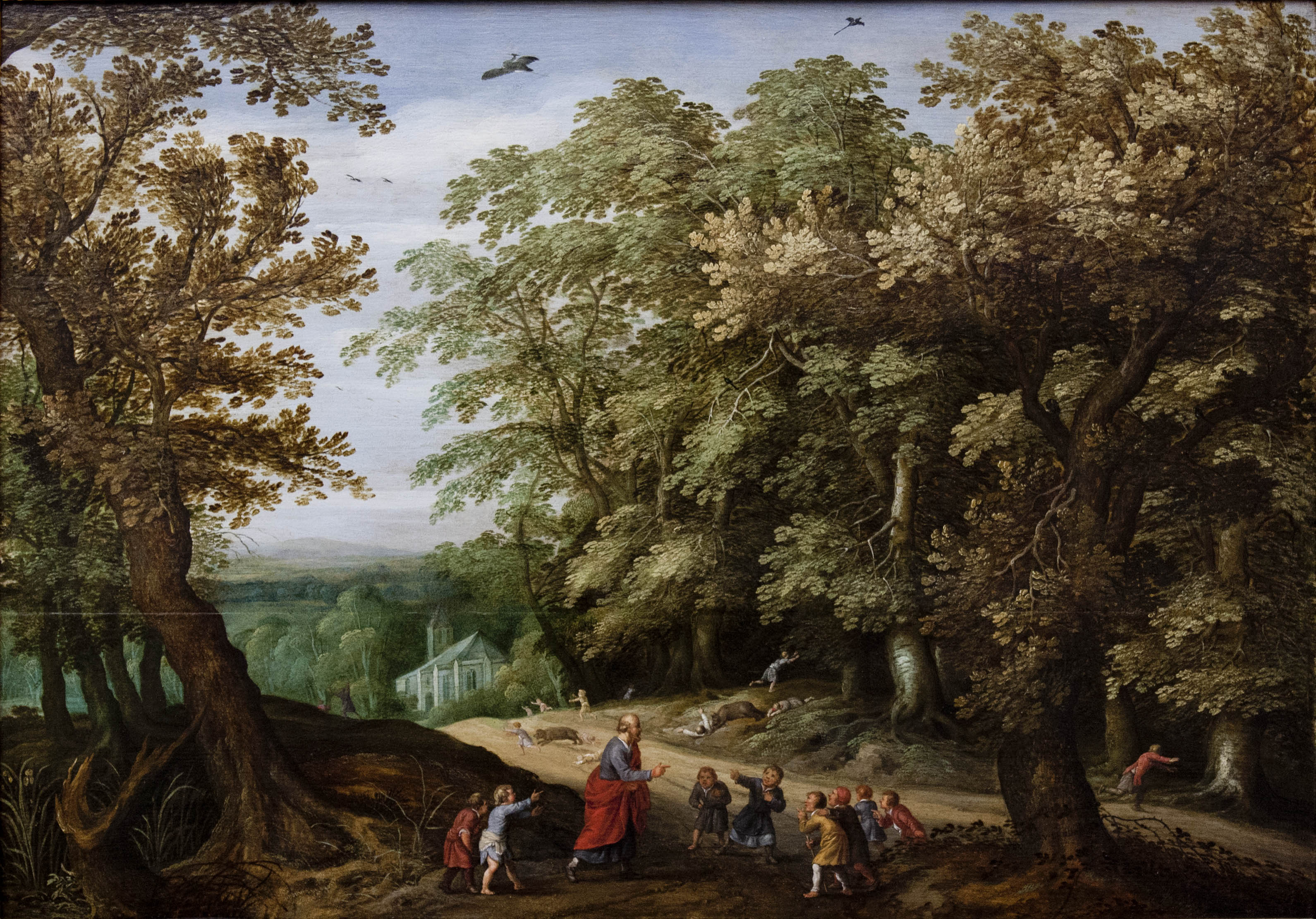 Painting by Willem Willemsz van den Bundel; original in the Gemäldegalerie, Berlin